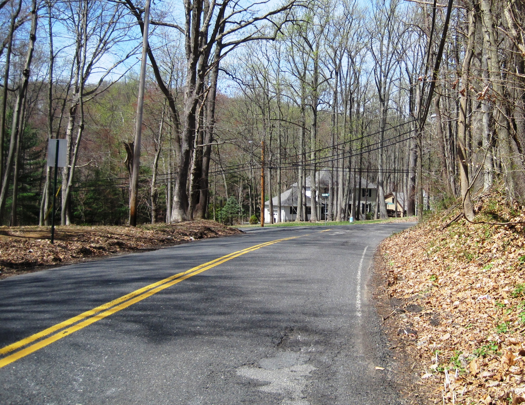 Photo of Pleasant Valley, New Jersey, an unincorporated community within Marlboro Township. Photo taken on Pleasant Valley Road at its intersection with Reids Hill Road.